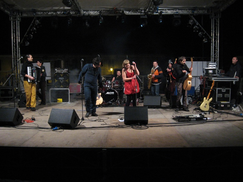 Riserva Moac